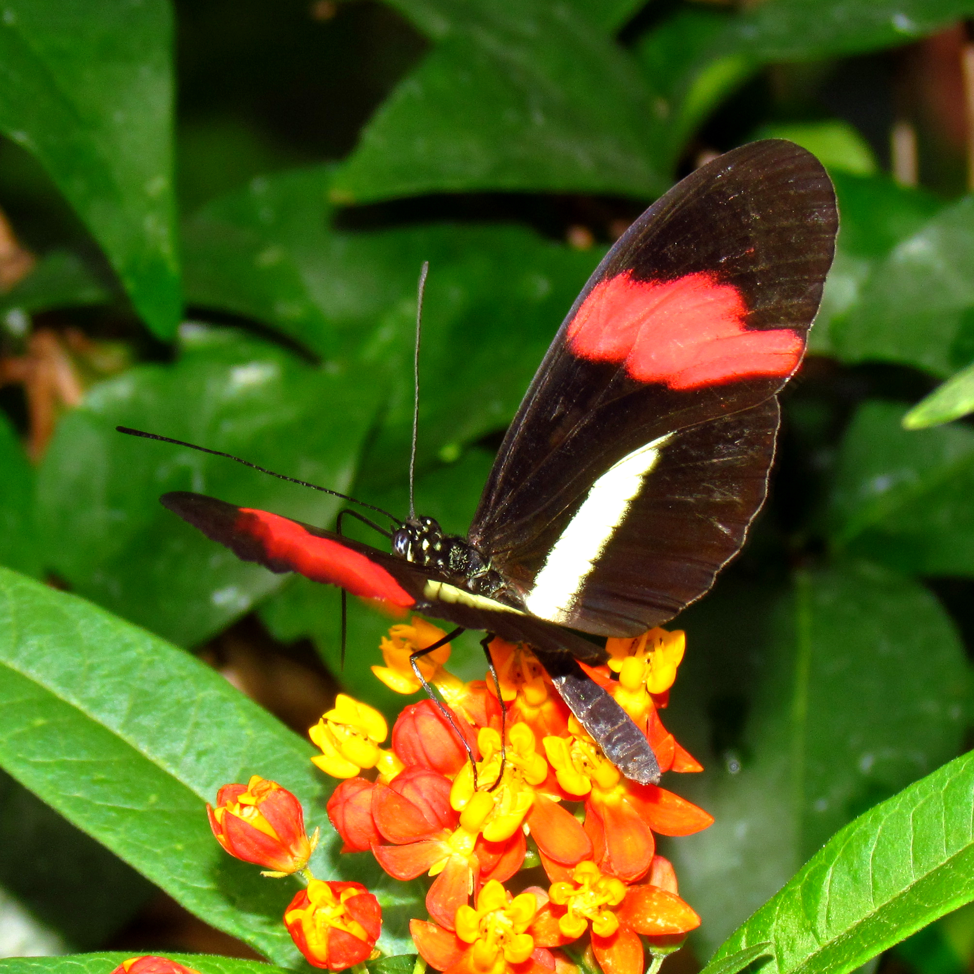 Common Postman butterfly (Heliconius melpomene), Carleton University, Ottawa, Ontario, Canada